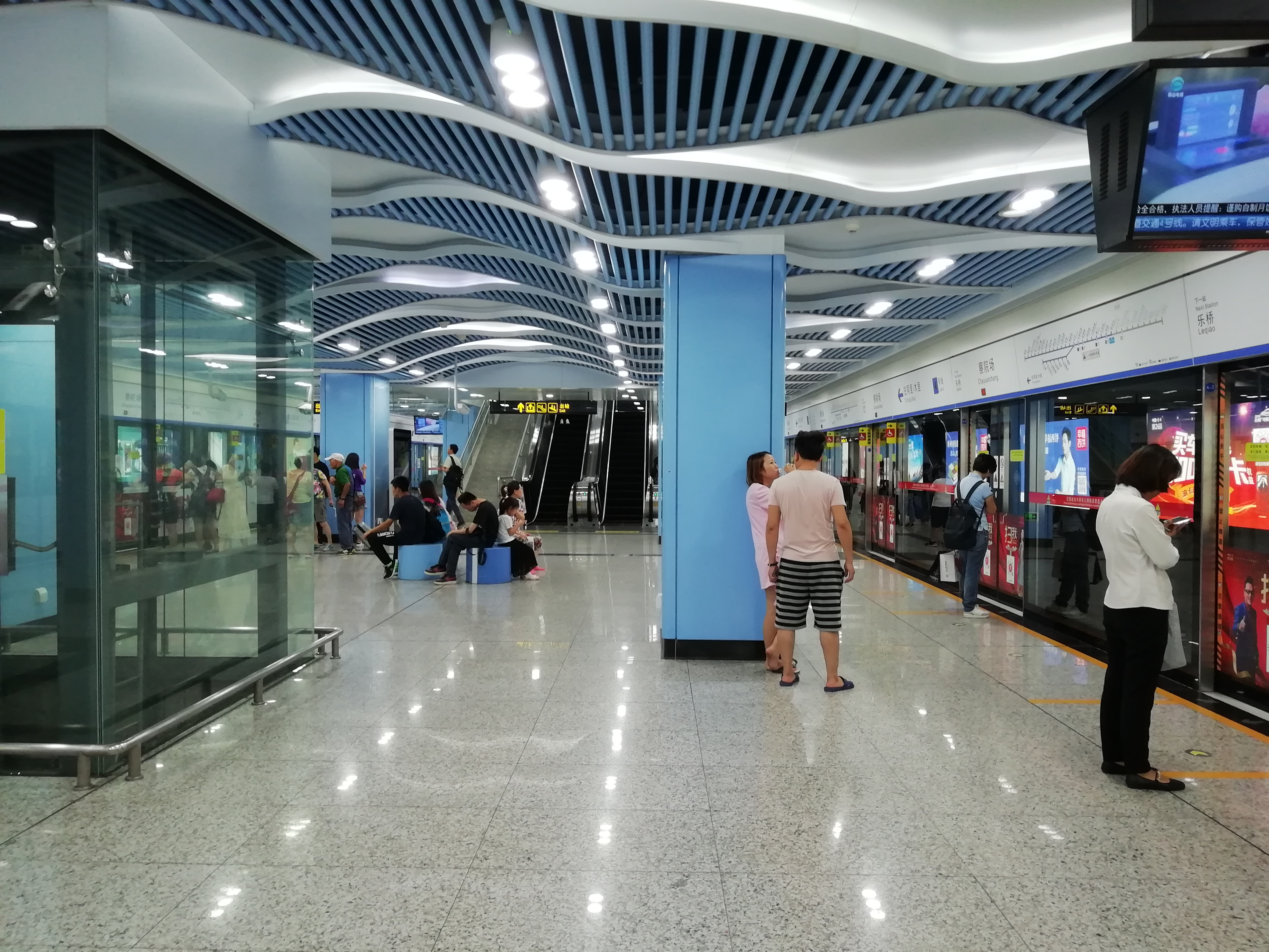 Platform of Chayuanchang Station of Line 4, Suzhou Rail Transit 中文（中国大陆）: 苏州轨道交通4号线察院场站站台（从站台间拍摄）